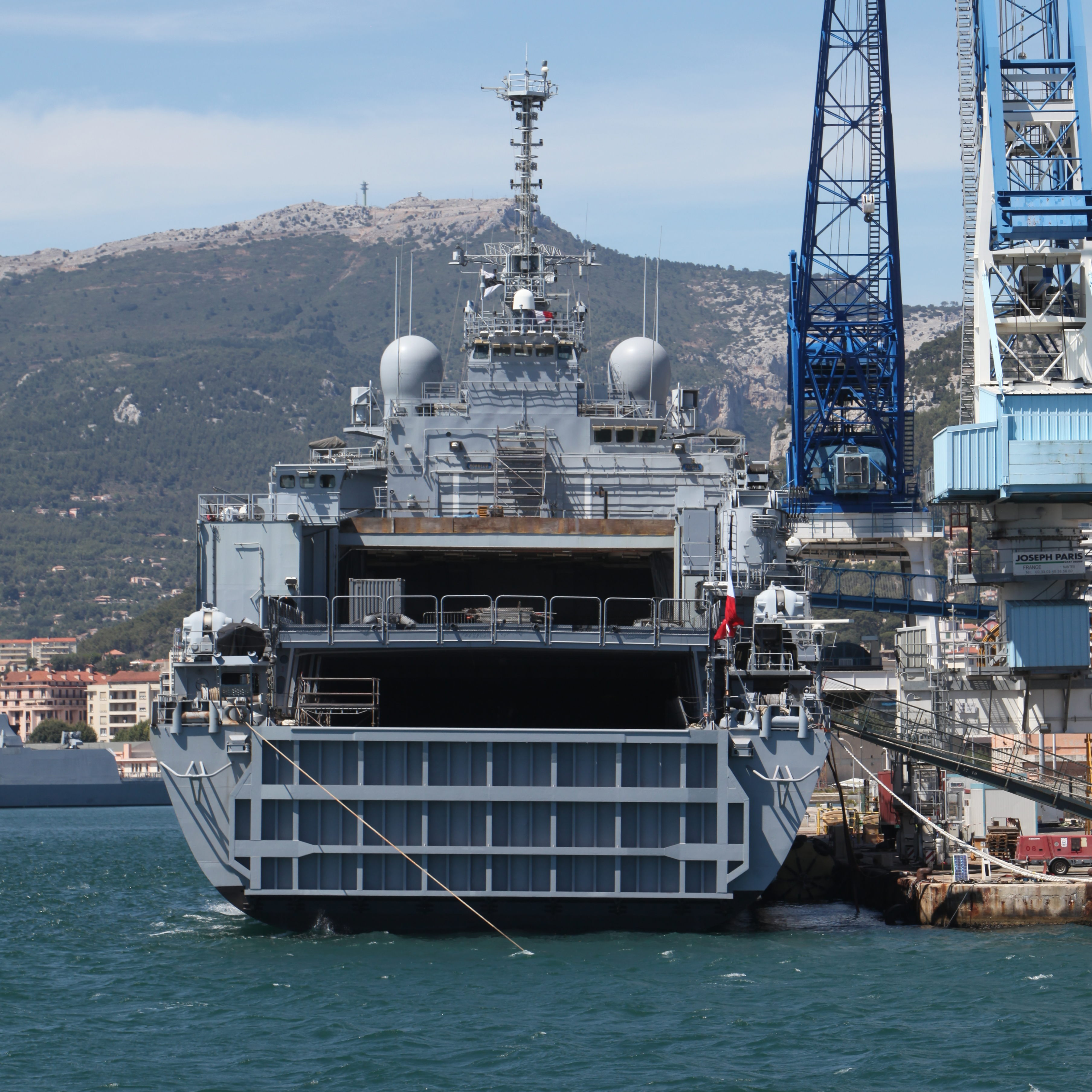 The Siroco in Toulon harbour